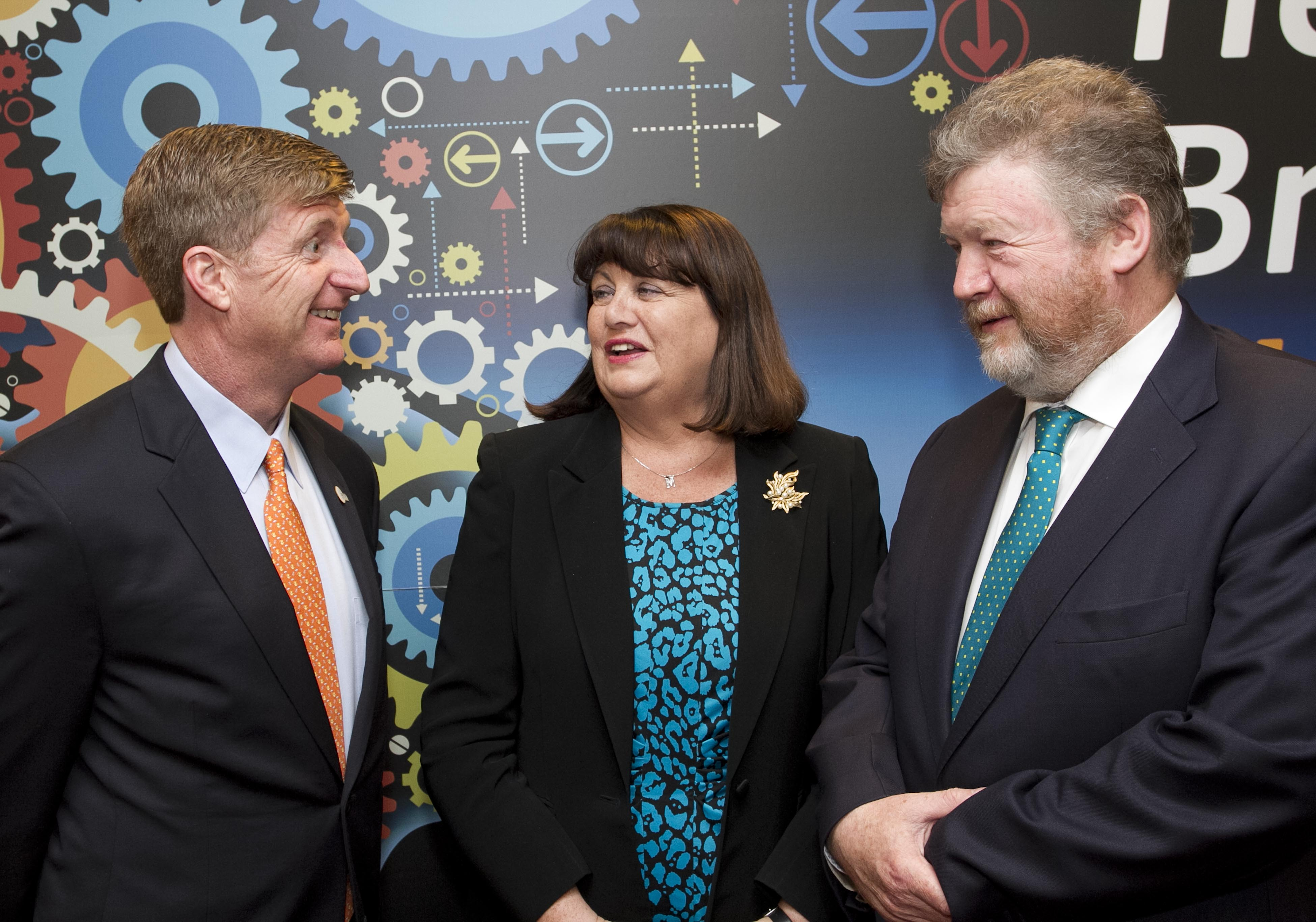 Healthy Brain Healthy Europe Conference: A new horizon for brain research and healthcare at the Convention Centre Dublin. Pictured are Patrick Kennedy, co-founder of One Mind Research, with E.U. Research, Innovation, and Research Commissioner Máire Geoghegan-Quinn and Minister for Health Dr. James Reilly T.D. May 27, 2013. Photo: Colm Mahady/Fennells.